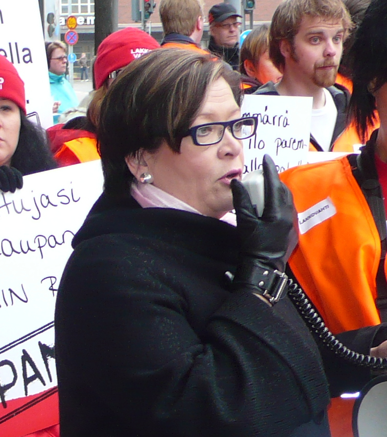 PAM trade union leader Ann Selin speaking in a demonstration in Tampere, Finland